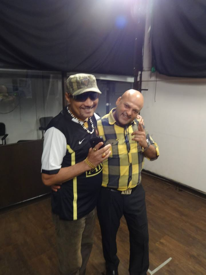 Labh Janjua with Bollywood Famous Line Producer Deepak Bhanushali